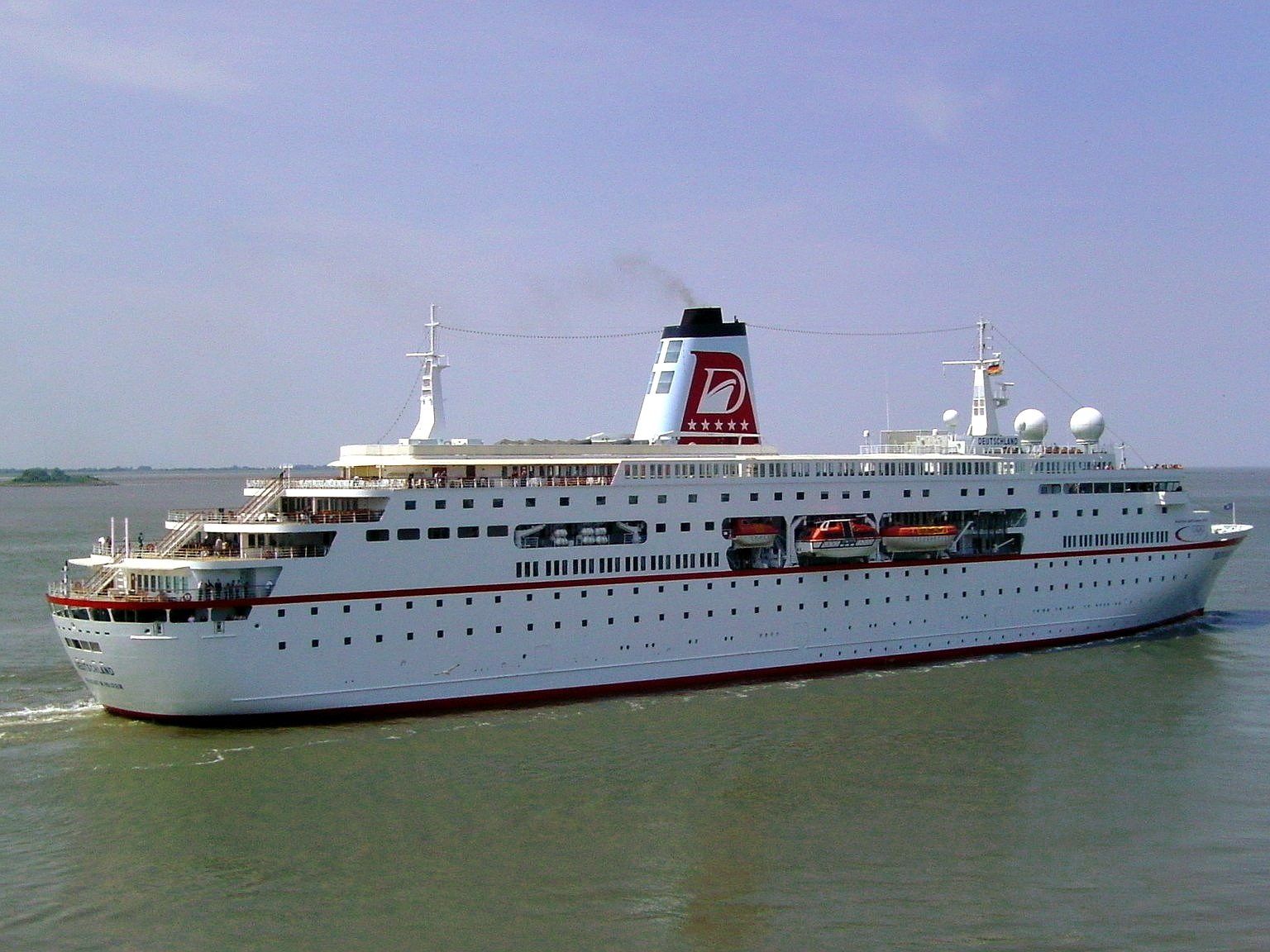 After works at the BREDO shipyard, the cruise ship Deutschland is leaving Bremerhaven in Germany